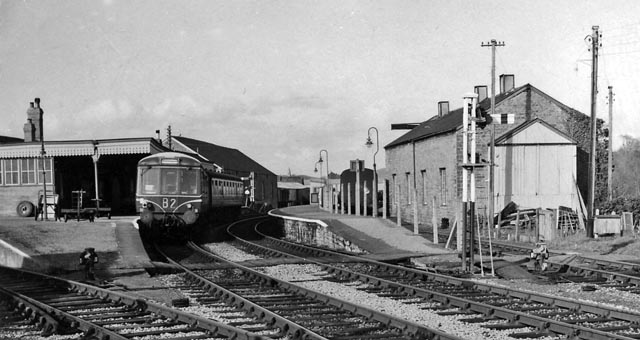 Bridport Station. View northward, towards Maiden Newton; ex-GWR [Bradple Road] semi-terminus of branch from Maiden Newton, with a DMU branch train (probably through from Weymouth) at the platforrm. The line in the foreground continued through East St. station to Bridport West Bay and had been open for goods until 3/12/62 although closed to passengers on 22/9/30. This station and the line from Maiden Newton survived until 5/5/75.